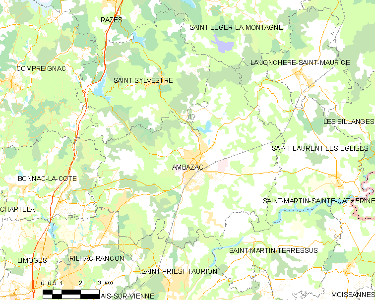 Map of French municipality Ambazac